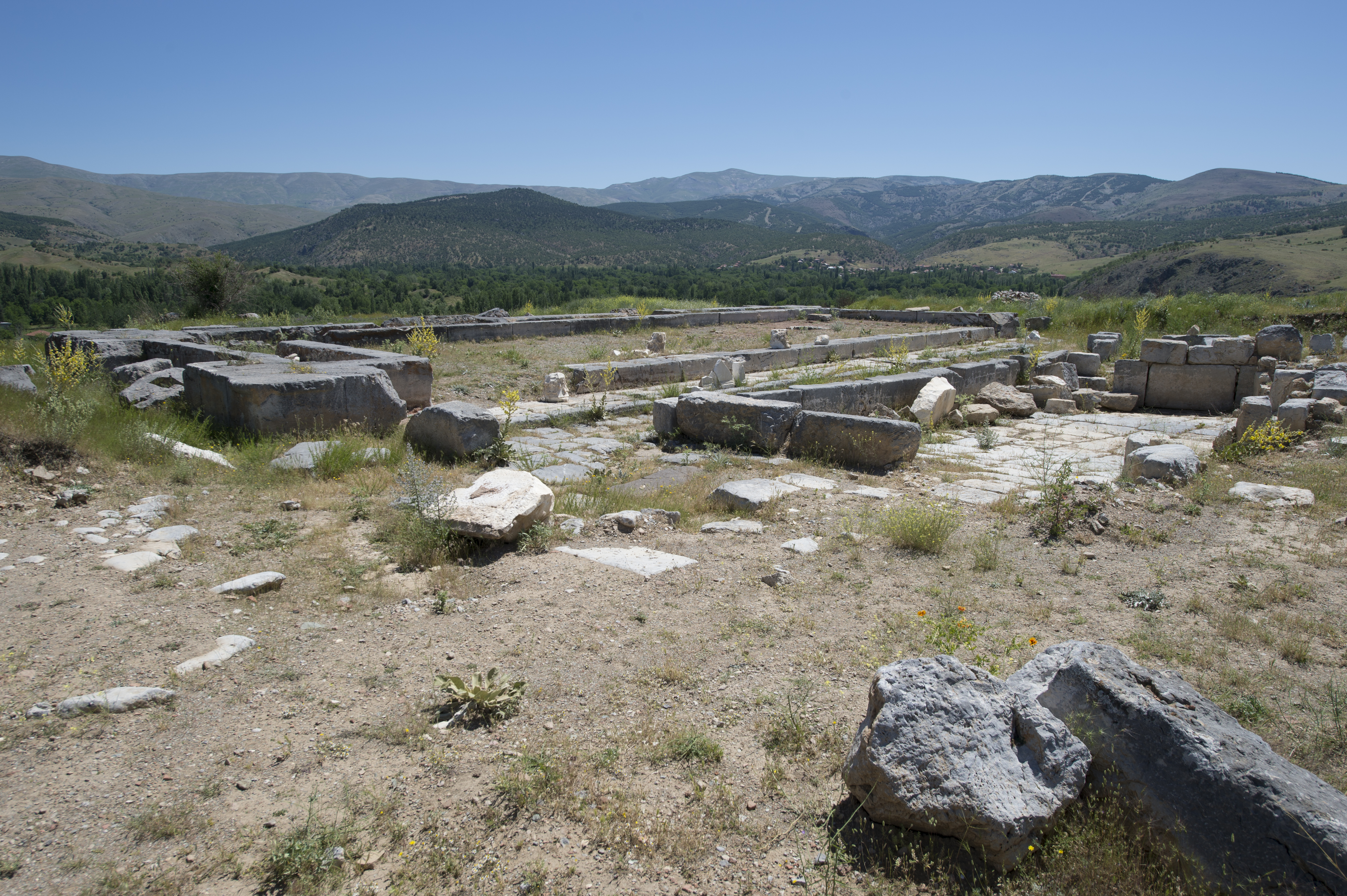 Nymphaeum (Fountain): The building is a wide U-shape. It was built to collect water brought by aqueduct and distribute it throughout the city. The building included a reservoir measuring 27 x 3 m, an ornamented 9 m high façade, and a pool of 27 x 7 m and 1,5 m deep. The monumental fountain is dated to the first half of the 1st century AD. In Pisidia Antiocheia the water, which came from an altitude of 1465m (in the mountains north of the city), was conveyed over a distance of 11 km in channels, through tunnels and on arches of one or two stories, depending of the terrain; the waterway was partly in stone, and partly made of earthenware tubes. As the nymphaeum is at an altitude of 1178m, the drop from the starting point (287 m) gives an average slope of 2,6 %. The water pressure along such a slope is high; so the pressure of flow was lowered by phases, and when the water arrived at the syphon aqueducts at the end of the system, the flow was controlled with a slope of only 0,02 %. As a result of this feat of engineering, 3000 cubic meters of water was distributed to the city daily without any problems for centuries. Correspondent: J.M.Criel, Antwerpen. Sources: ‘Pisidian Antioch’ – Ünal Demirer, archaeologist. (Ankara, 1997) & Personal visits (1994 – 2003).